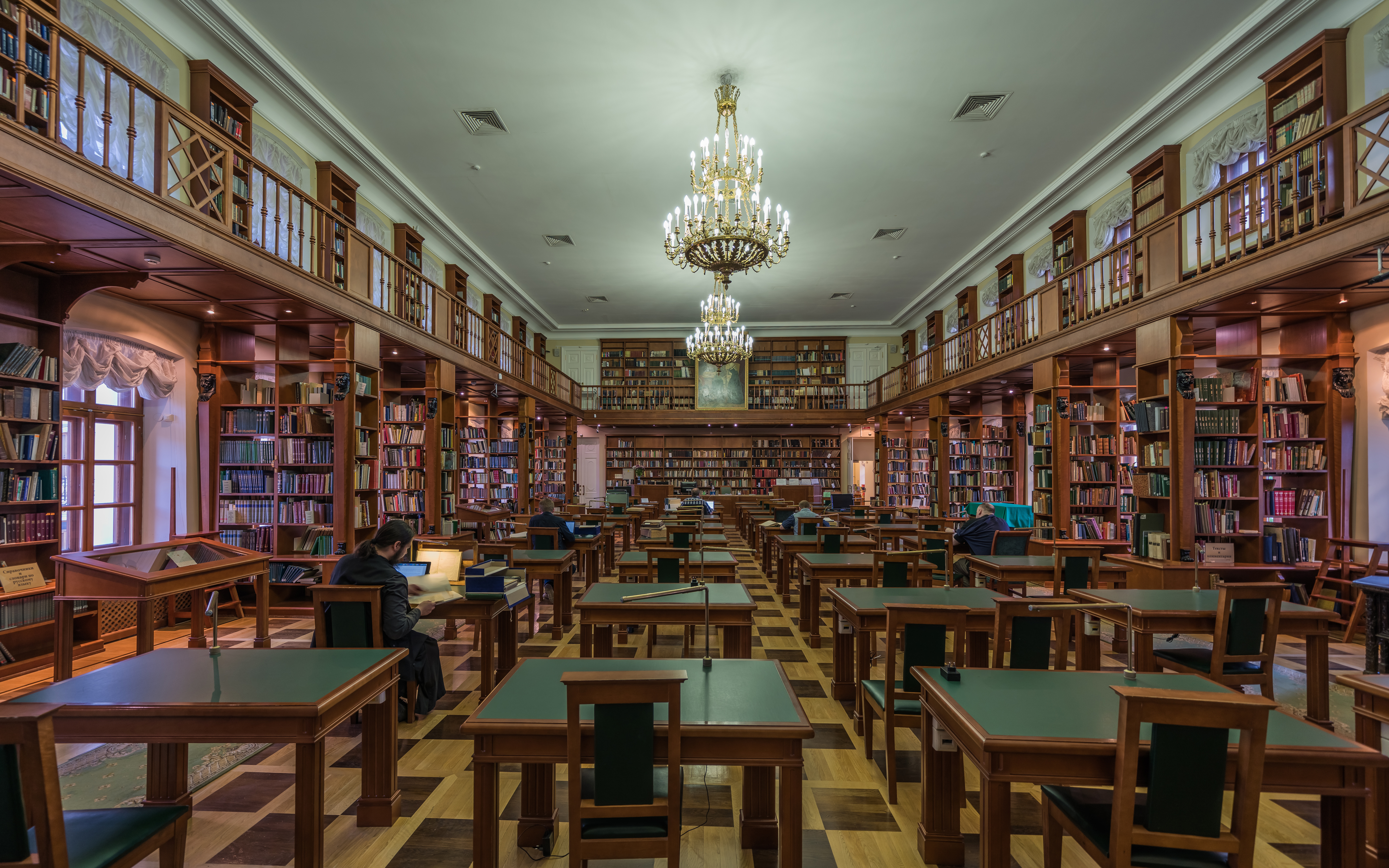 Interior of Pashkov House in Moscow, Russia